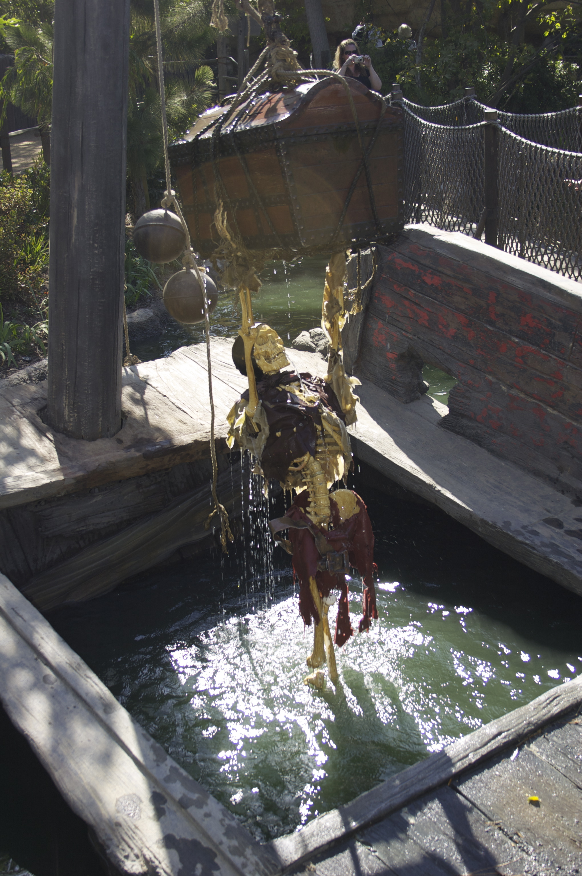 One of the interactive features in the smugglers cove section of Pirate's Lair on Tom Sawyer's Island